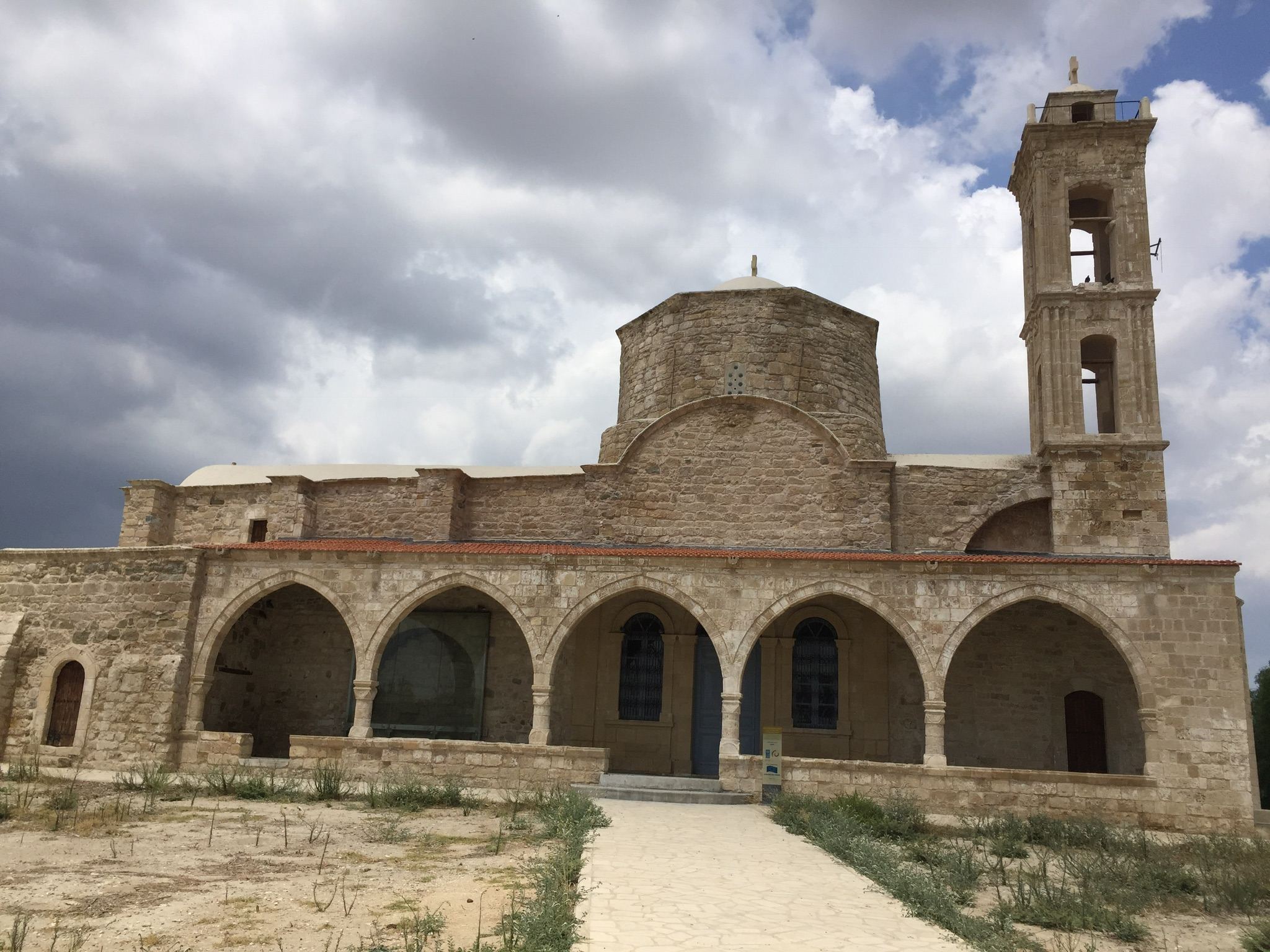 Restored Archangelos Michael Church in Lefkoniko/Geçitkale, Cyprus